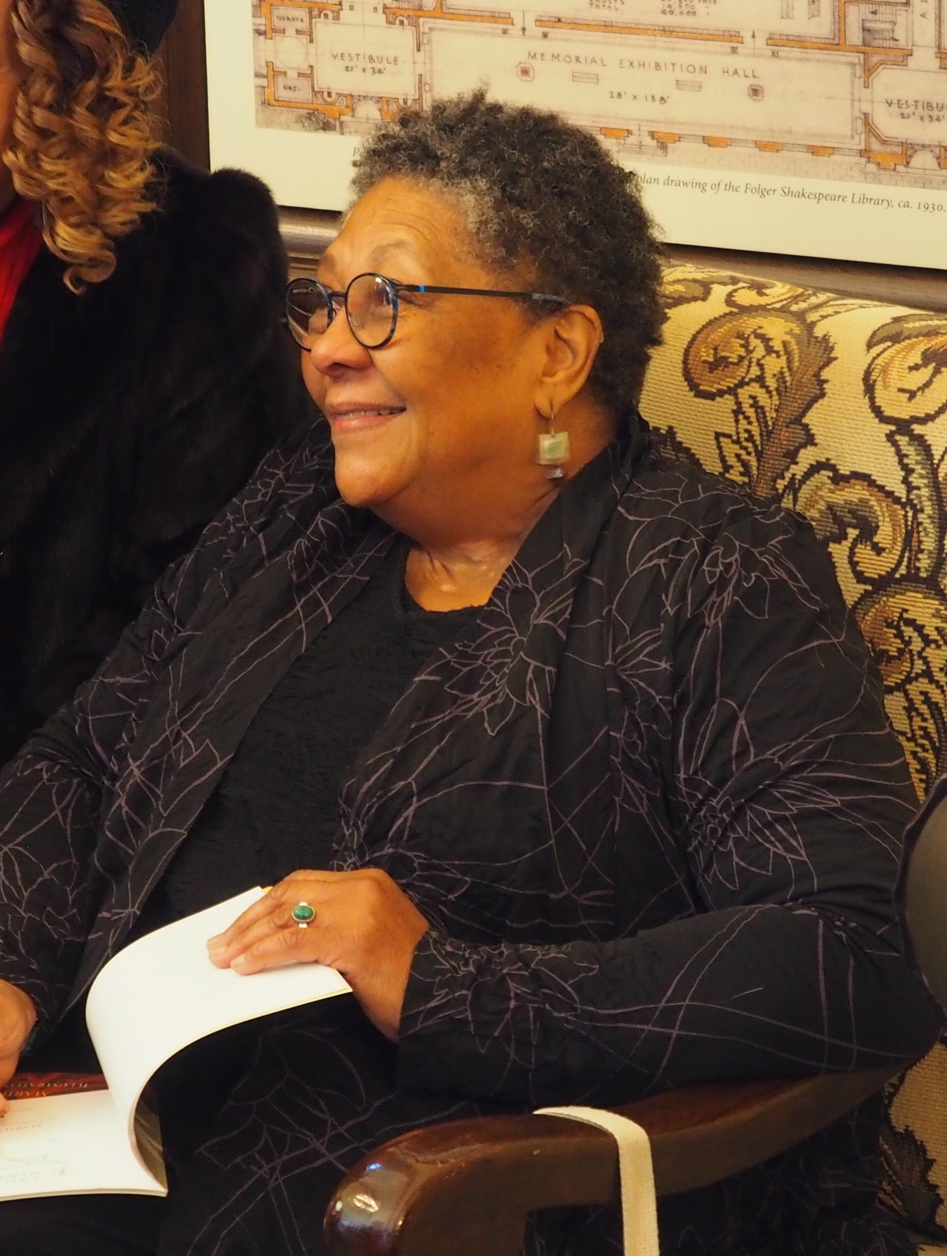 reading at the Folger poetry seriesm Washington, D.C.